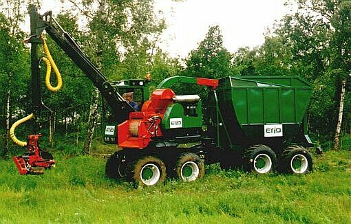 Second prototype of a self-propelled wood chipper, built 1996